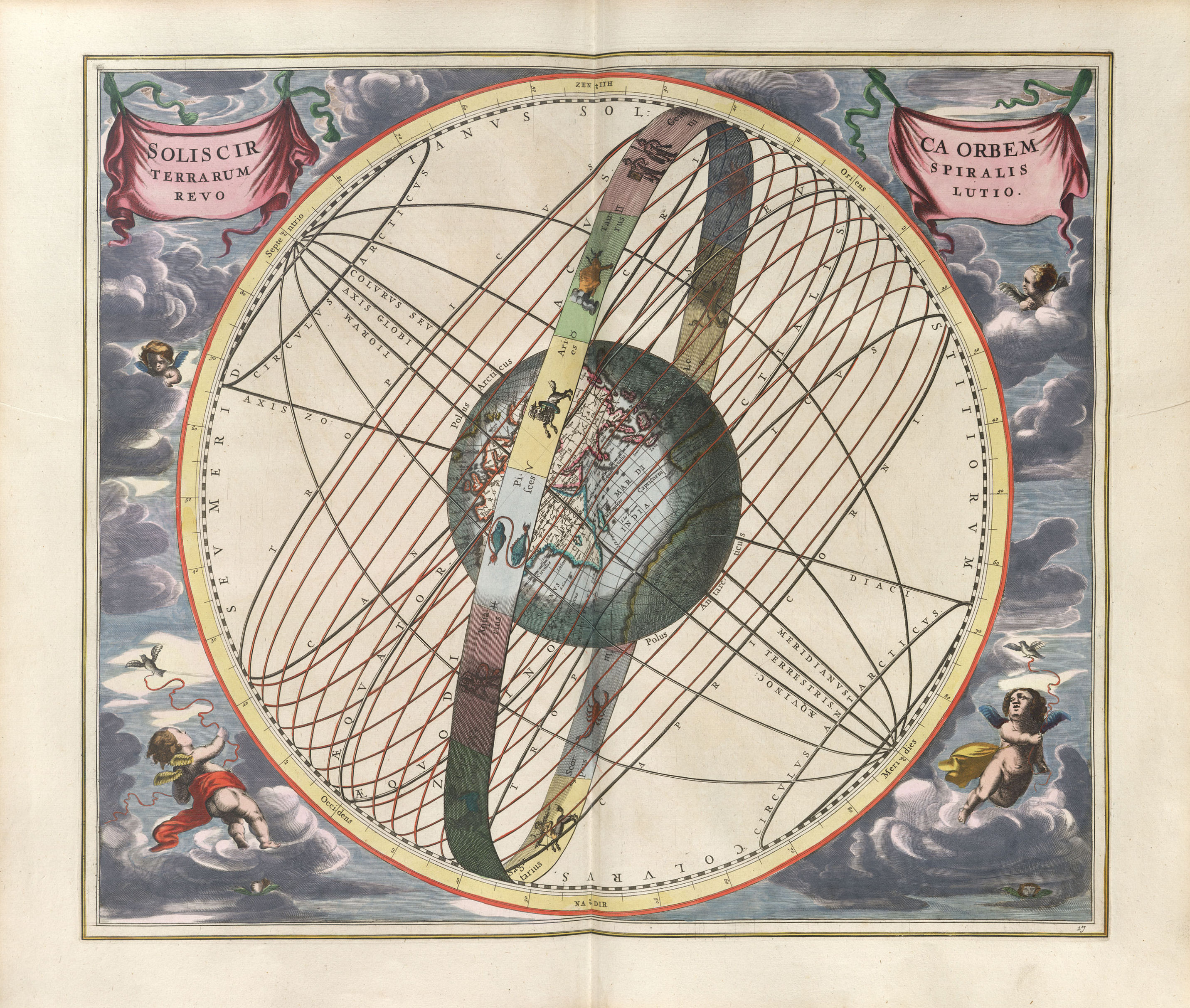 Andreas Cellarius: Harmonia macrocosmica seu atlas universalis et novus, totius universi creati cosmographiam generalem, et novam exhibens. Plate 17. SOLIS CIRCA ORBEM TERRARUM SPIRALIS REVOLUTIO - The (apparent) spiral revolution of the Sun around the Earth.